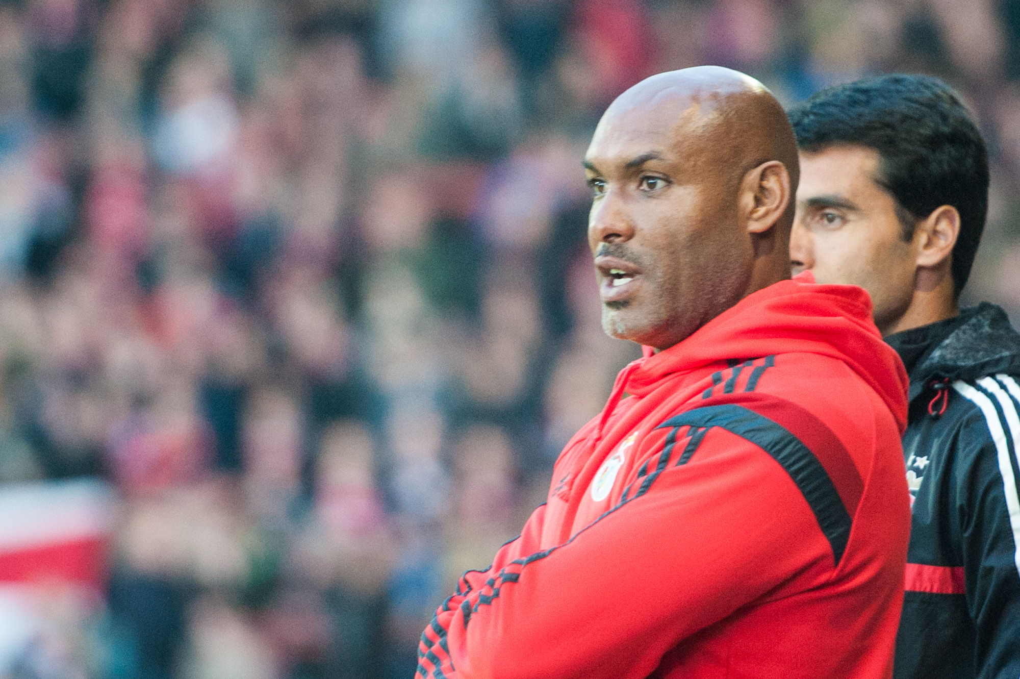 FC United of Manchester v SL Benfica. 29/05/15. The Benfica management team during the international friendly match between FC United of Manchester and SL Benfica at Broadhurst Park, Manchester, Greater Manchester on Friday May 28th 2015.